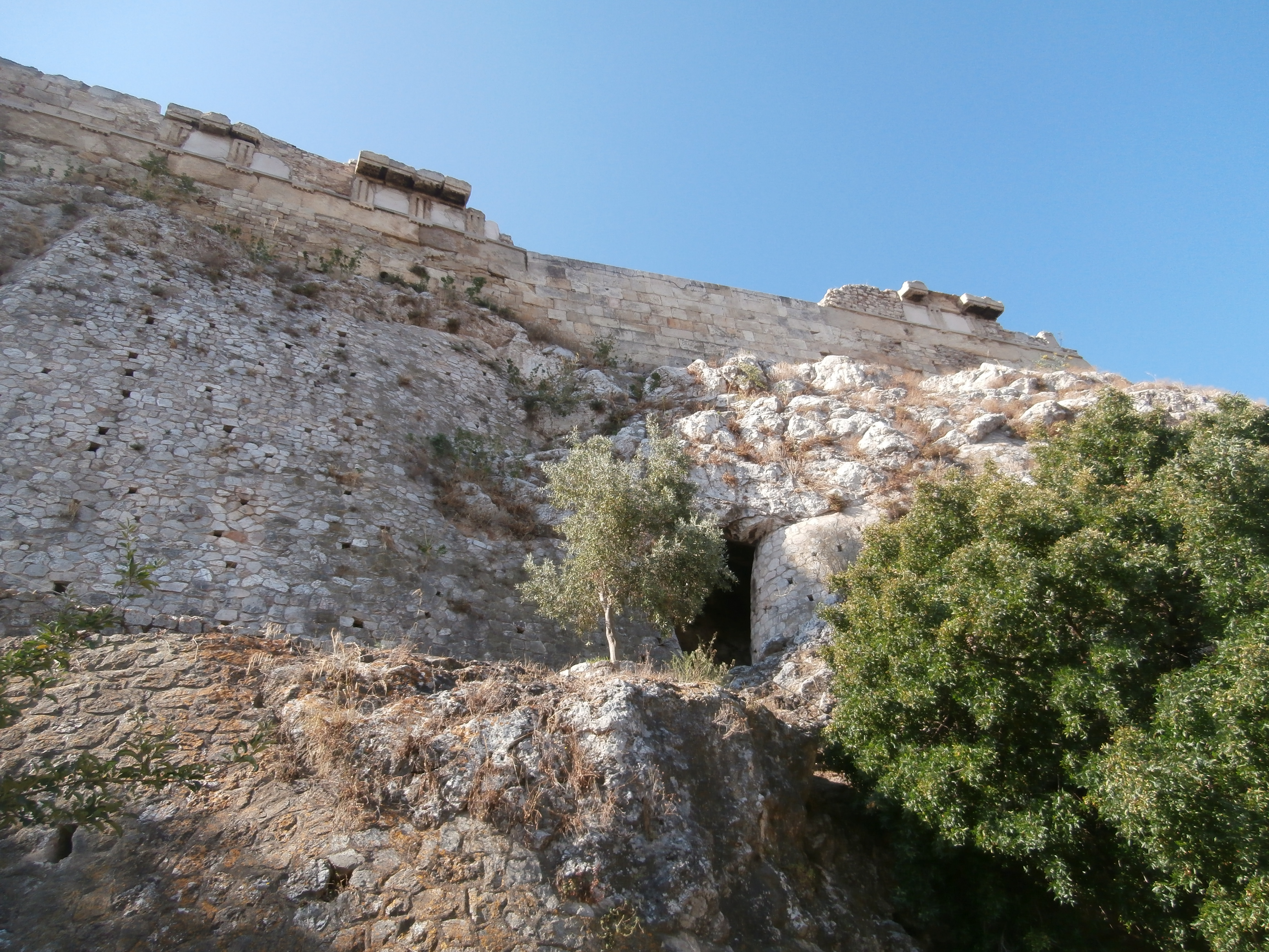 The north slopes of Acropolis, with the Mycenean fountain visible.